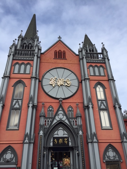 hua zang si gate